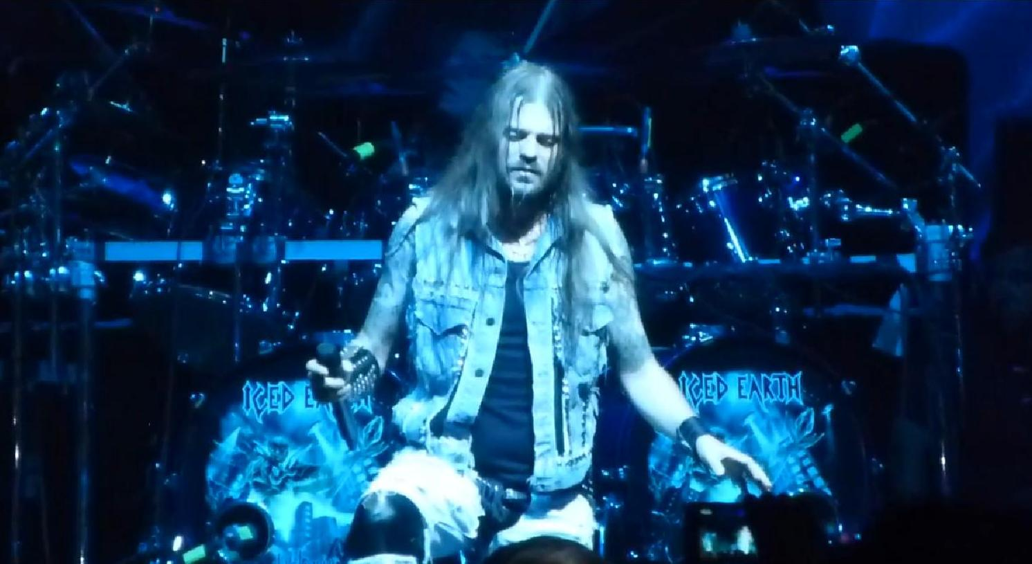 Stu Block performing with Iced Earth.